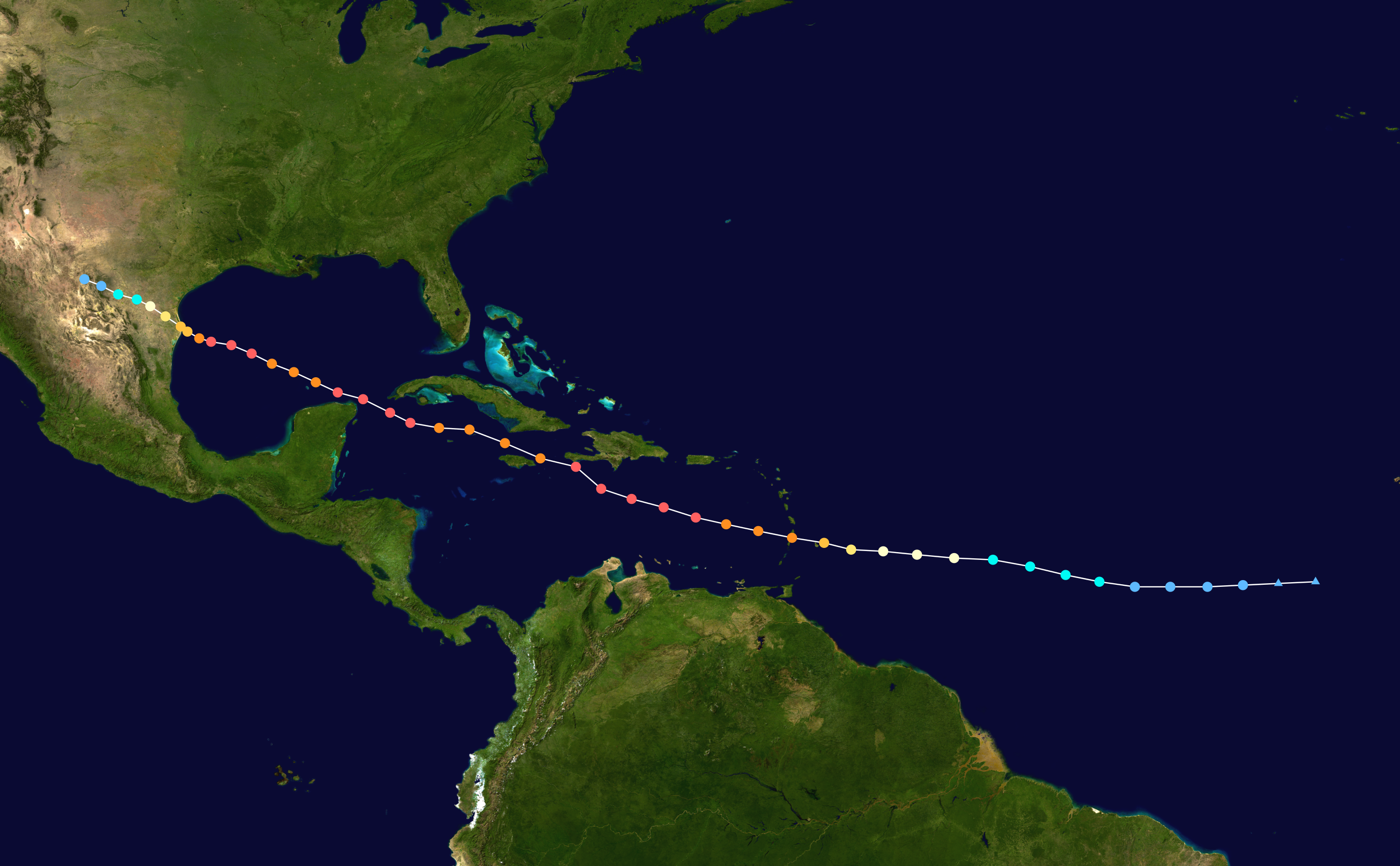 Hurricane Allen (1980) track. Uses the color scheme from the Saffir-Simpson Hurricane Scale.